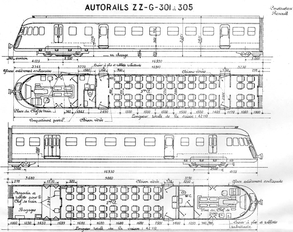 Drawing of Renault ABV PLM ZZ G 301 to 305.